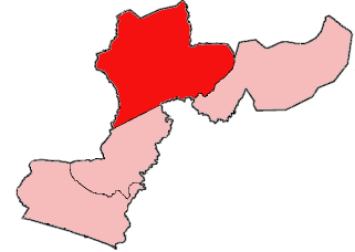 Map of Margibi County, Liberia showing Kakata District; created with the GIMP. Made by User:Acntx.